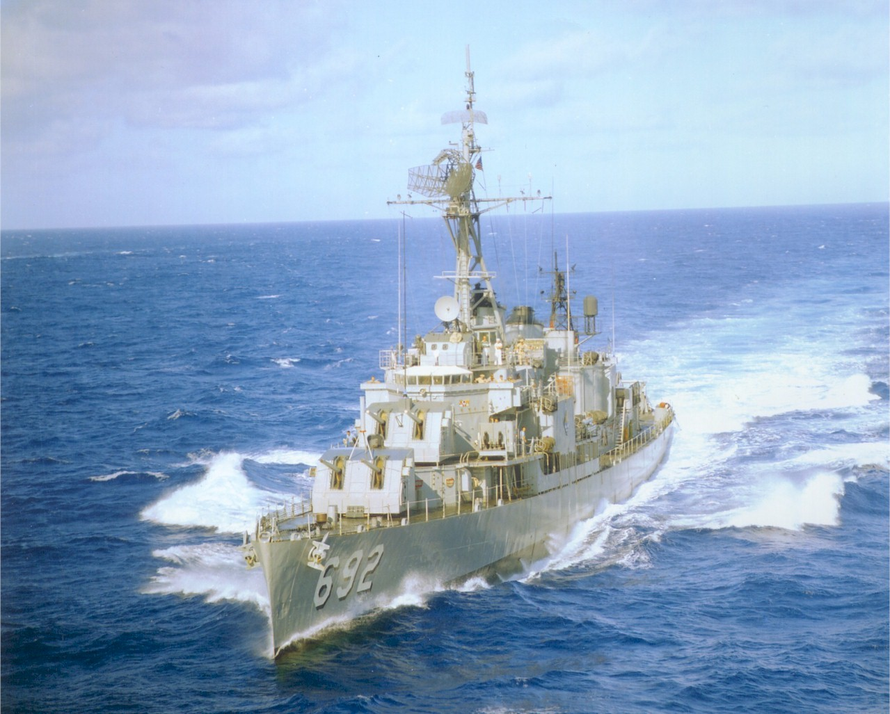 The destroyer USS Allen M. Sumner (DD-692) off the coast of Hawaii in August 1967.